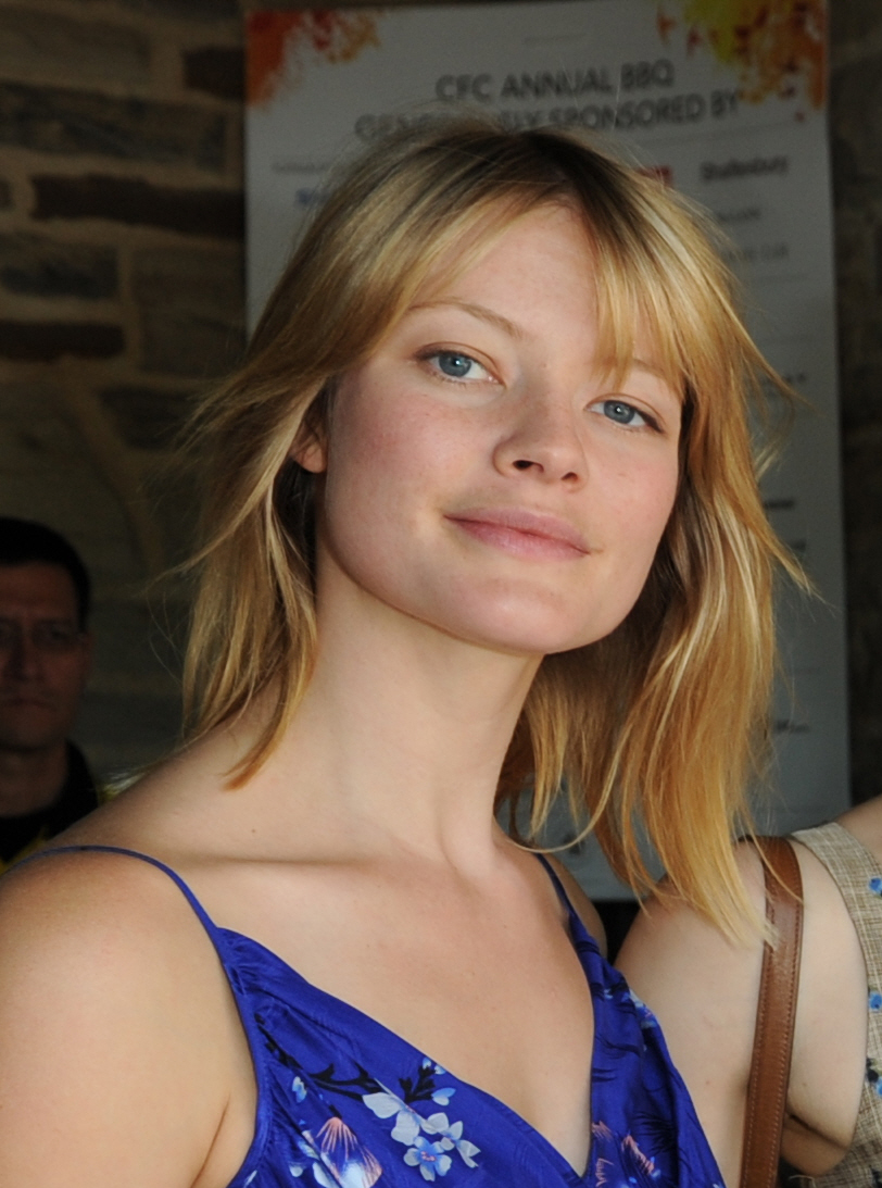 Canadian Film Centre (CFC) Annual BBQ Norman Jewison poses with TIFF Rising Stars Sarah Allen, Sarah Gadon, Keon Mohajeri and Katie Boland at the Canadian Film Centre (CFC) Annual BBQ held on Sept. 11, 2011 in Toronto, Ontario in celebration of Canadian Talent at the 2011 Toronto International Film Festival. Both Sarah Allen and Keon Mohajeri are alumni of the CFC Actors Conservatory. To find out more about the Canadian Film Centre, please visit